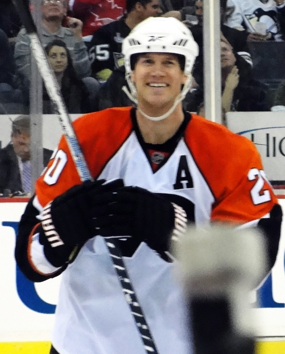 Chris Pronger of the Philadelphia Flyers during a game against the Pittsburgh Penguins, March 27, 2010 at Mellon Arena in Pittsburgh, PA.